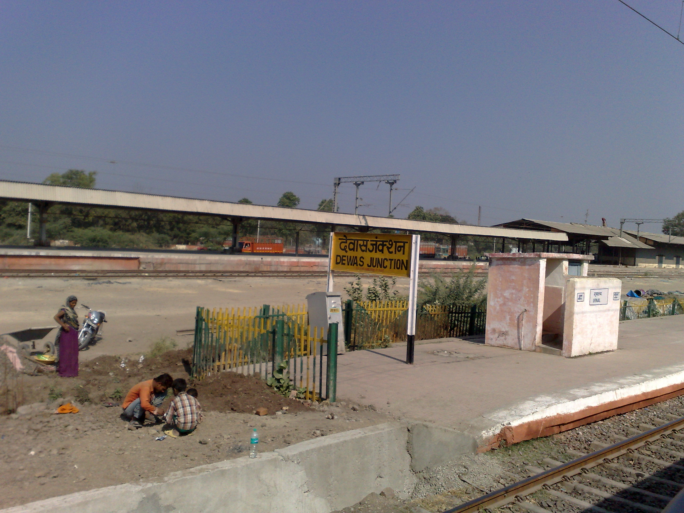 Dewas Junction (2)